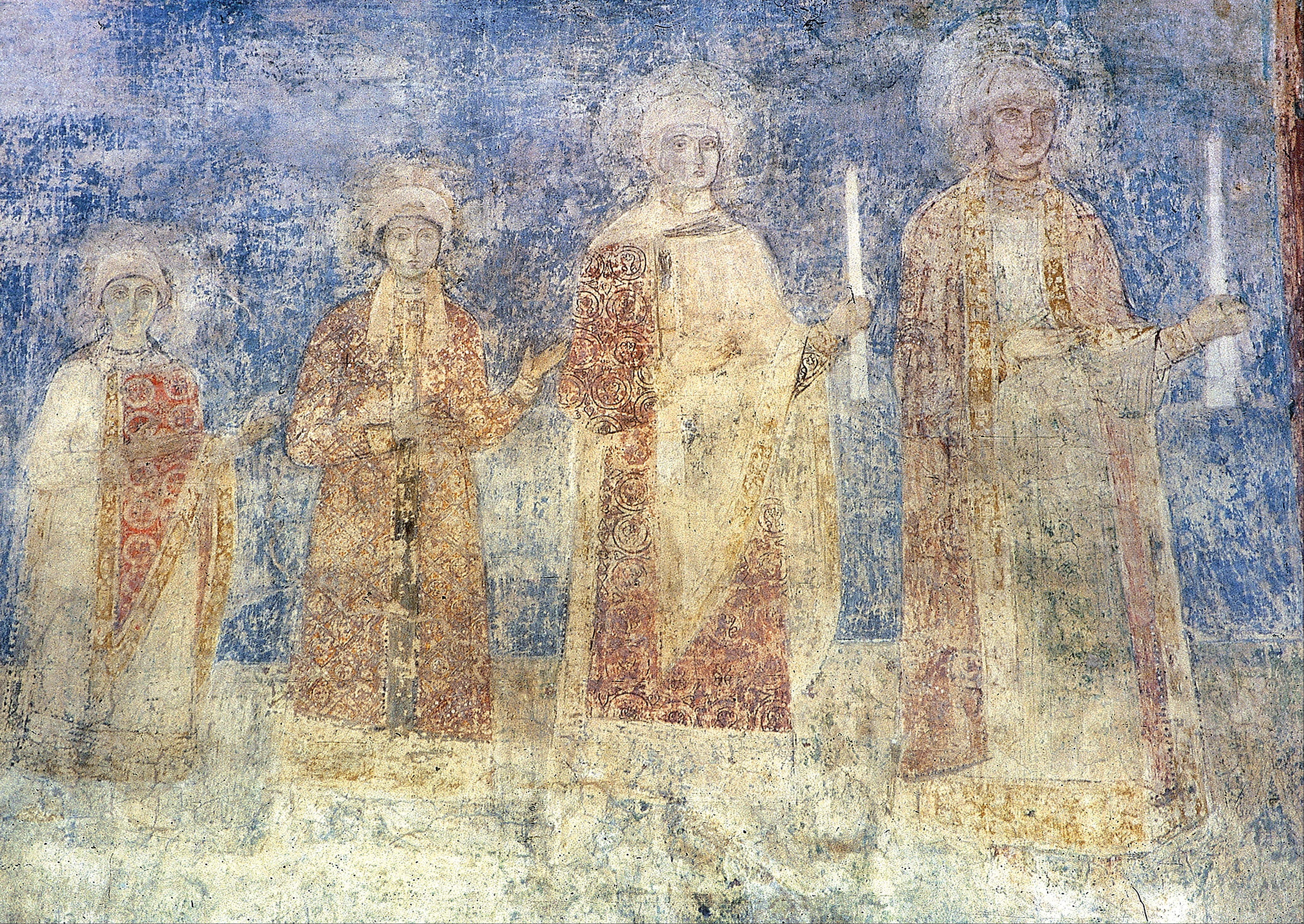 The portrait of princely family was located on three walls of the nave – south, west and north. The west wall was demolished at the end of the 17th c., because of emergency state. Part of painting has not been preserved. The fragments of preserved painting do not give an opportunity to identify the portrayed persons, because of poor state of preservation. Traditionally, it has been argued that princely portrait presented the family of Prince Yaroslav the Wise, himself and his wife (the figures that were portrayed namely on the west wall, i.e. central part of the composition). On the south wall, there are four figures of the members of princely family, probably prince’s children.